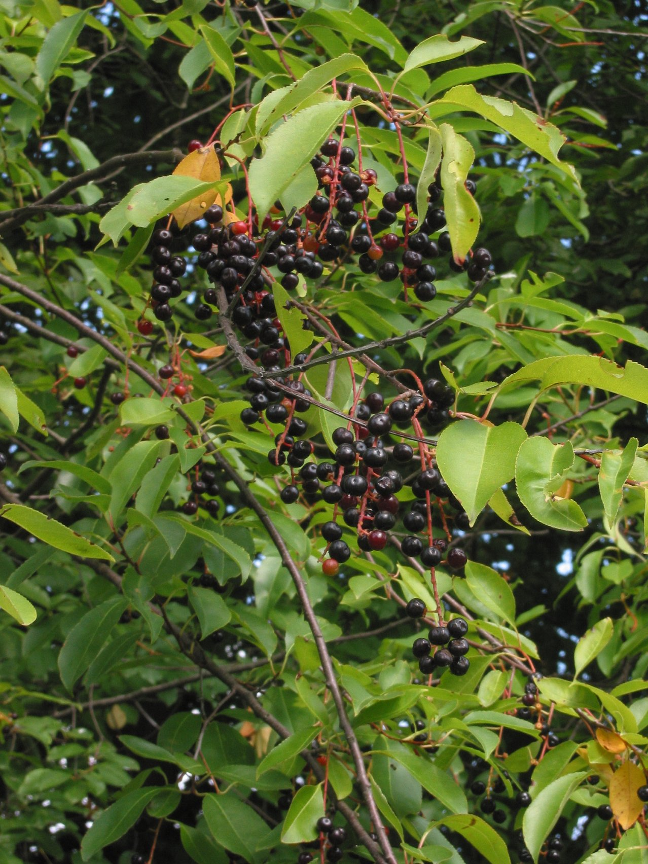 Prunus serotina fruits